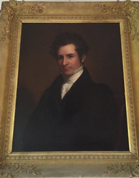 Portrait by Thomas Sully, photograph by R Tayloe Cook VII